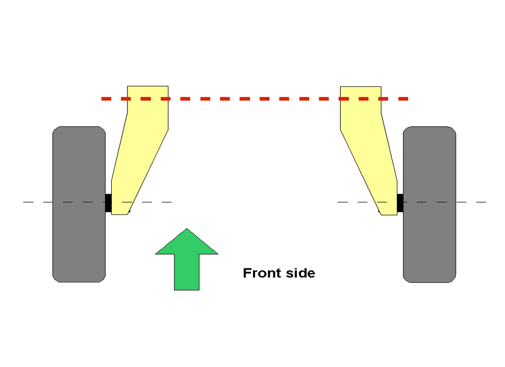 A schematic view of a Trailing arm suspension.